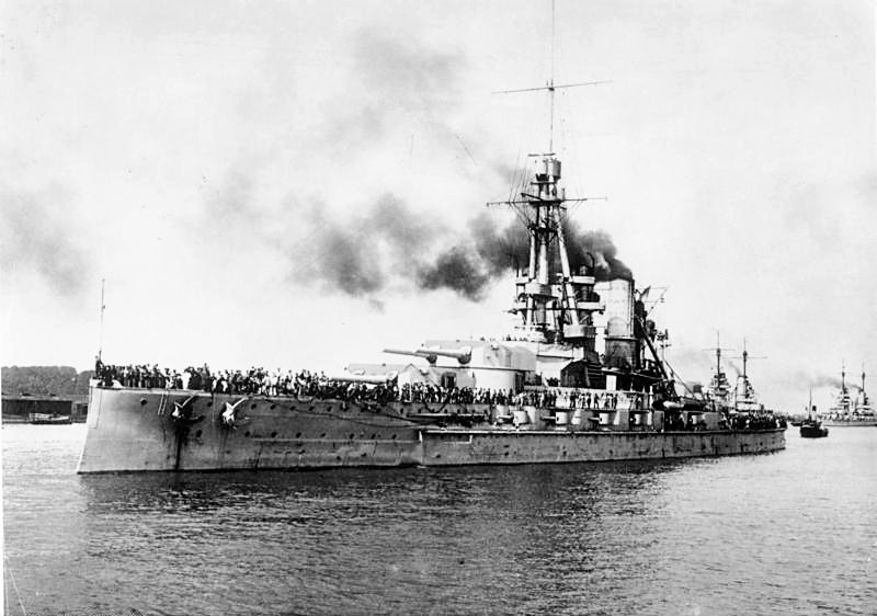 Germany 1915, Battleship "Bayern" on trials on the Kiel Canal